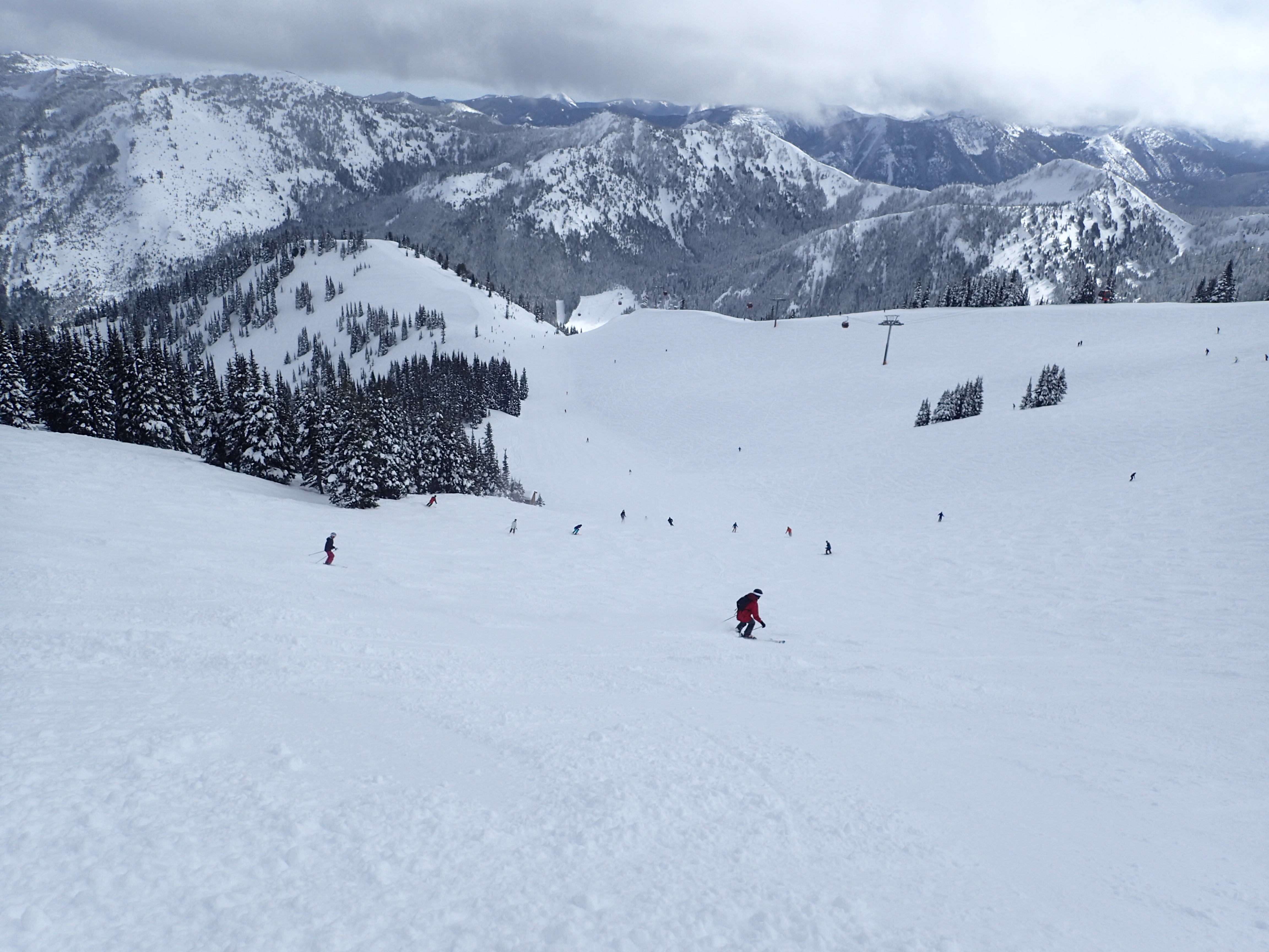 Taken March 2017